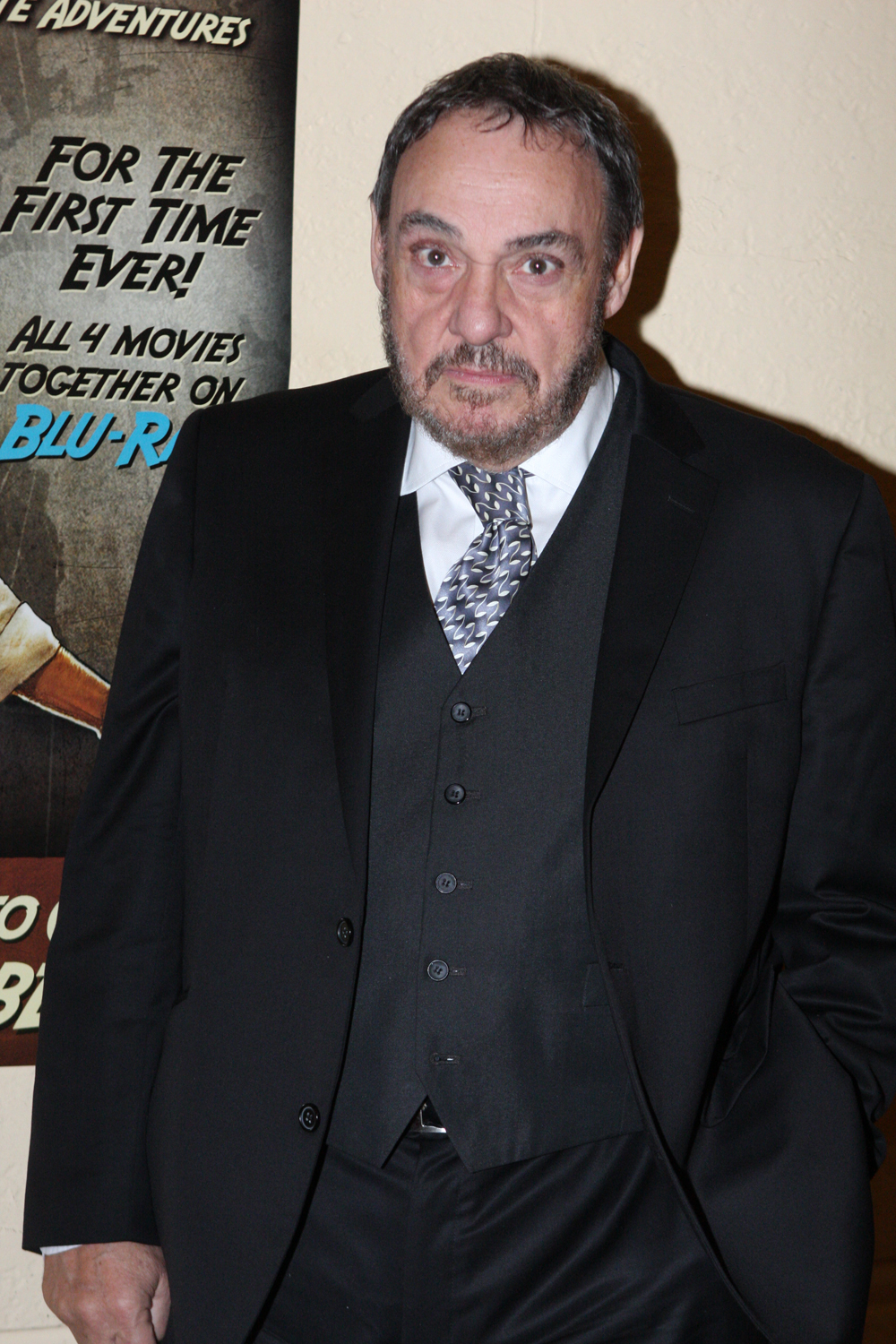 The all new remastered print, prepared especially in conjunction with 'Indiana Jones & the Raiders of the Lost Ark's' Blu-ray release, creates a spellbinding experience for Indiana Jones fans. Randwick Ritz Cinema, 43-47 Pauls Street, Randwick Wednesday, September 12, 2012 Website: Steven Spielberg and sound legend Ben Burtt went back to the original negative to create this new version of Indiana Jones & The Raiders of the Lost Ark that's entirely true to the look and feel of the original film. John Rhys-Davies will attend tonight's remastered screening. Rhys-Davies, in his pivotal role of Sallah, experienced not only a part on one of the most famous films of all time, but an inside view into the film's fascinating production process. Since starring in Indiana Jones & The Raiders of the Lost Ark, Rhys-Davies has enjoyed a rich and varied career, including the role of Gimli in the Lord of the Rings films.